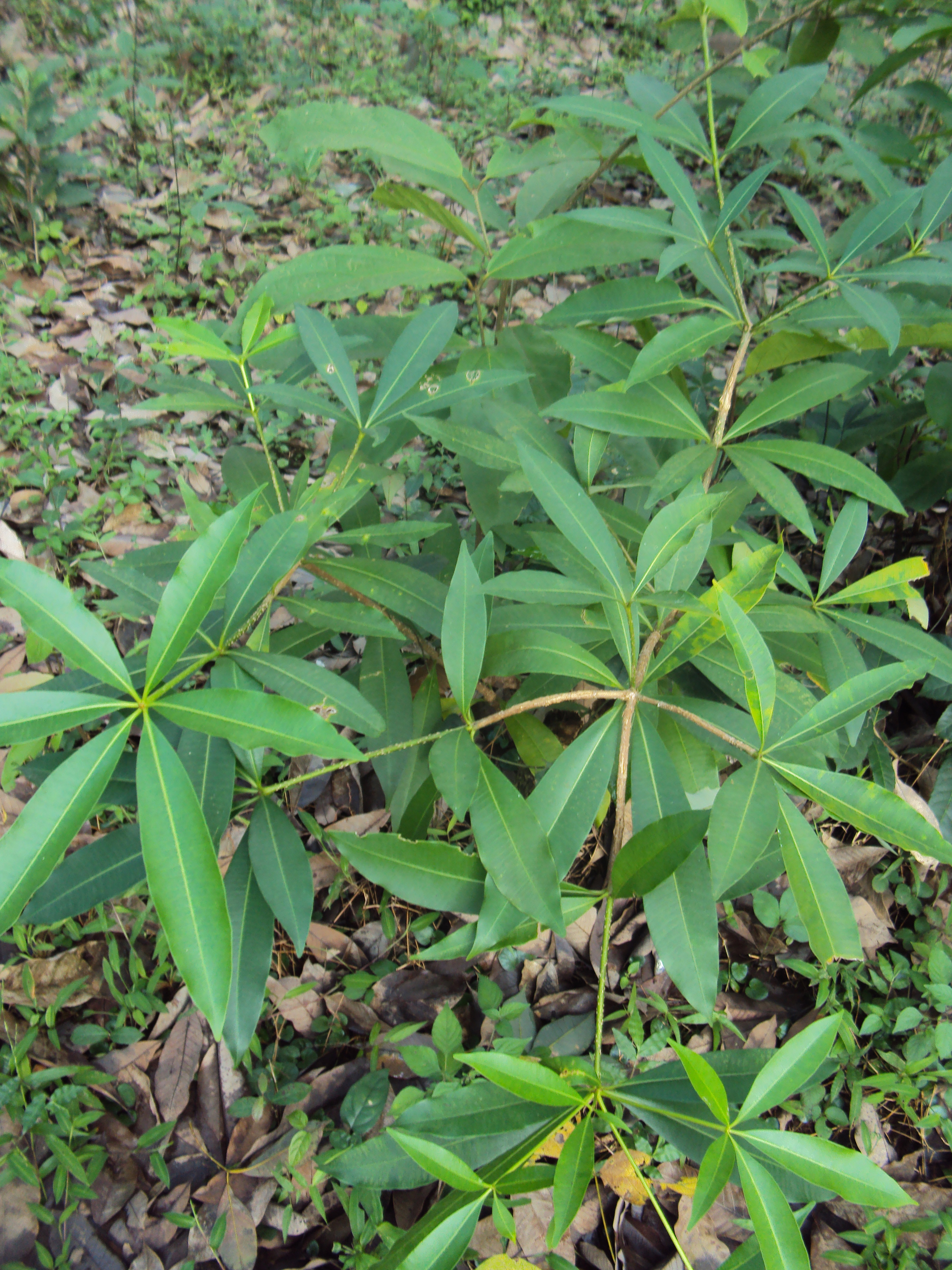 Alstonia scholaris leaves . ഏഴിലം‌പാല